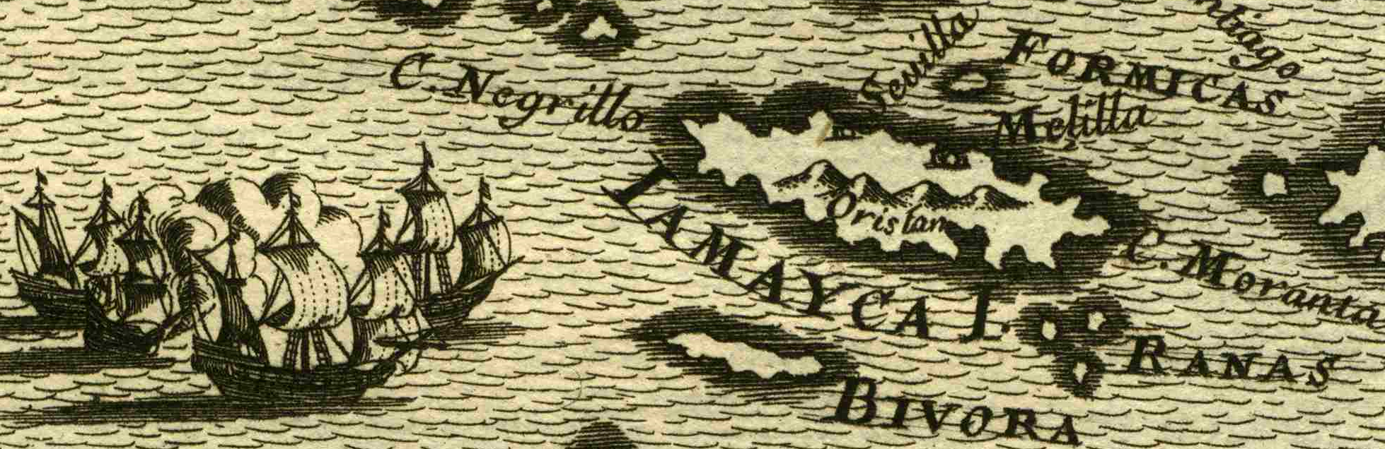 An extract showing Jamaica from an engraving in Mallet's Description de L'Univers published by Thierry in Paris in 1683.